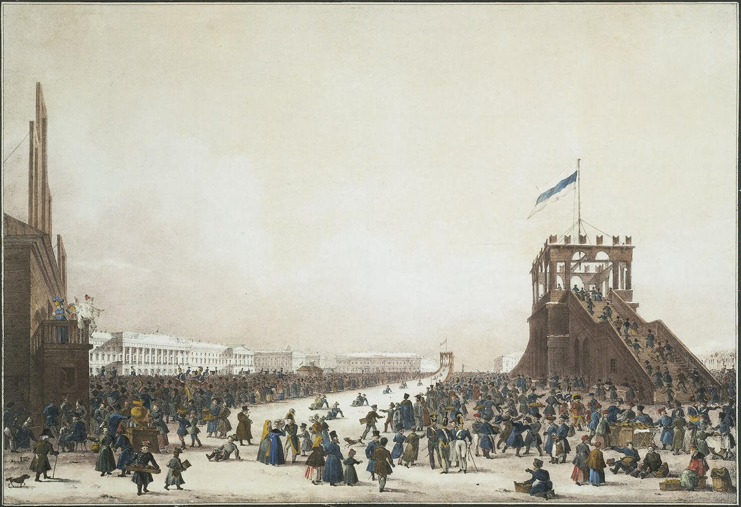 Shrove-tide Fete with Tobogganing on the Tsar's Meadow in St Petersburg. 1820s. Lithograph tinted with watercolour, 29.7x43 cm. State Hermitage.